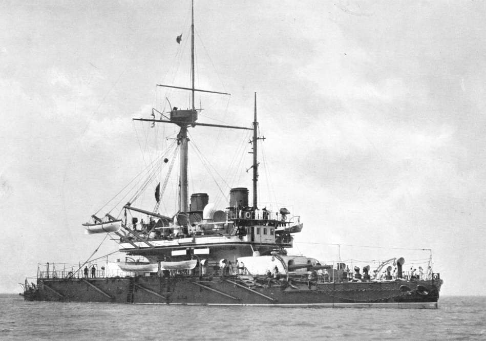 Photograph of British Devastation class battleship HMS Thunderer.